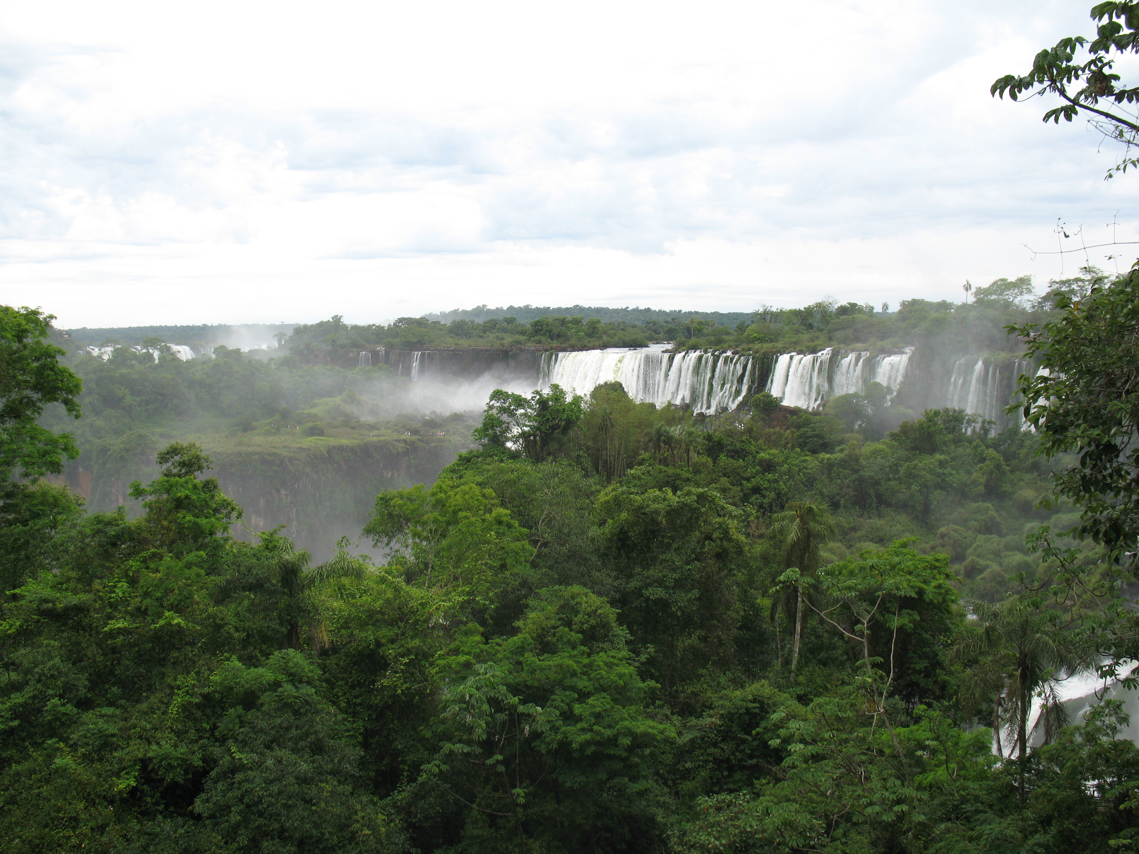 Iguazu Falls, view from the Argentine side